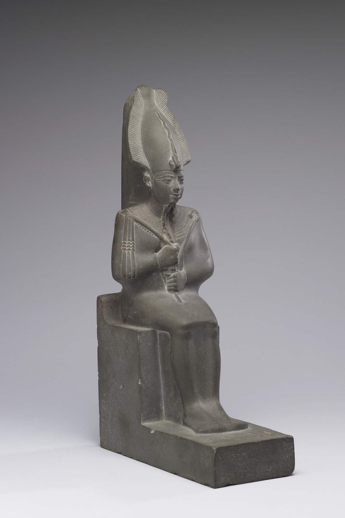 This statue of Osiris seated was donated to a temple by an Egyptian official whose name is lost. The text on the base and back pillar contains a prayer to Osiris-Wennefer (eternally incorruptible), named as the son of Nut (the goddess of the sky), head of the gods, great god, and ruler of eternity. The crook and flail in his hands and the ritual "atef"-crown identify him as a former king, albeit a mythical one.